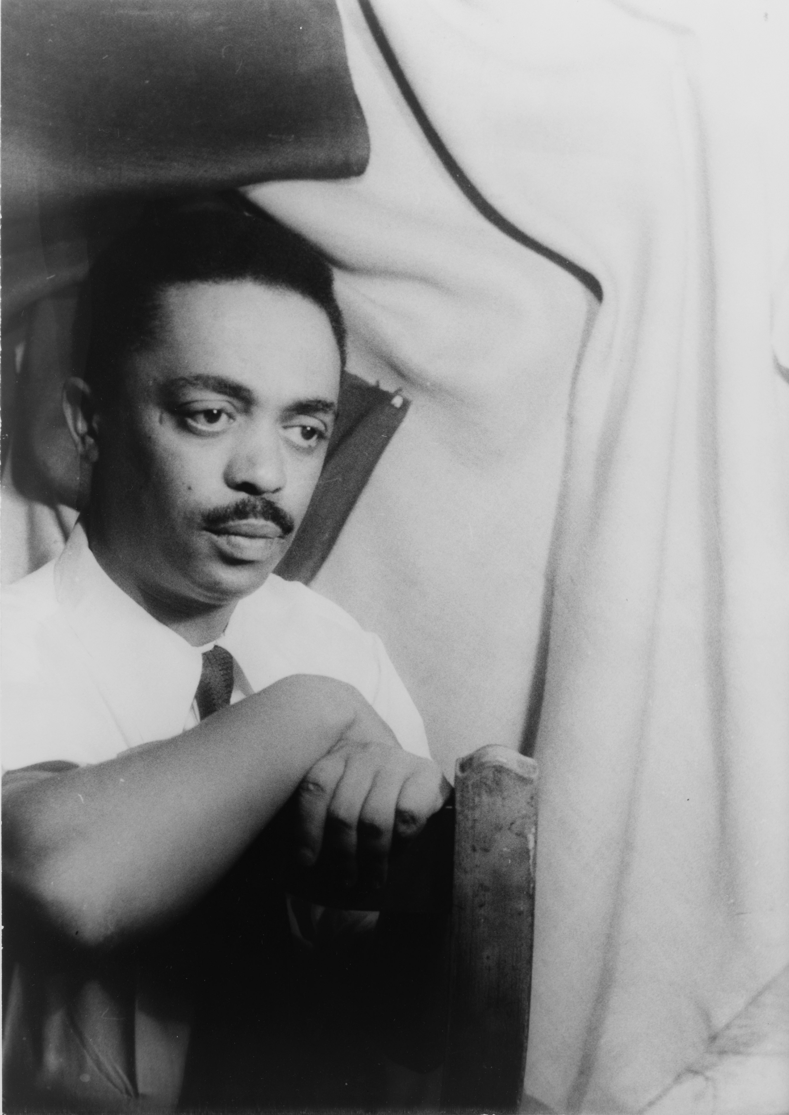 Title: Portrait of Peter Abrahams Physical description: 1 photographic print : gelatin silver. Notes: Title derived from information on verso of photographic print.; Van Vechten number: XVIII NN 1.; Also available on microfilm.; Gift; Carl Van Vechten Estate; 1966.; Forms part of: Portrait photographs of celebrities, a LOT which in turn forms part of the Carl Van Vechten photograph collection (Library of Congress).